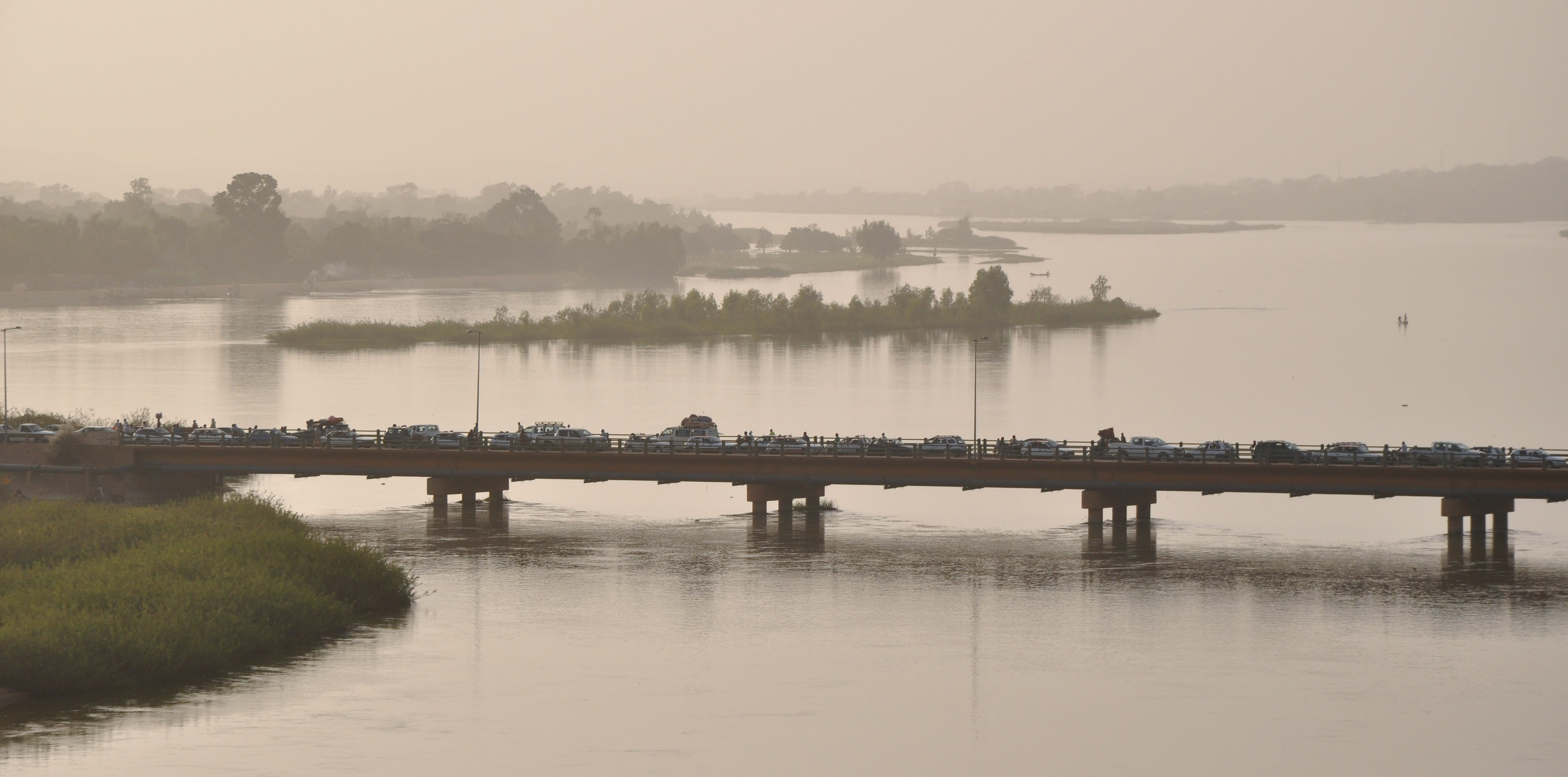 Pont Kennedy (Kennedy Bridge) over the Niger River, in Niamey, Niger.